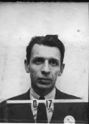 John W. Calkin Los Alamos wartime security badge.